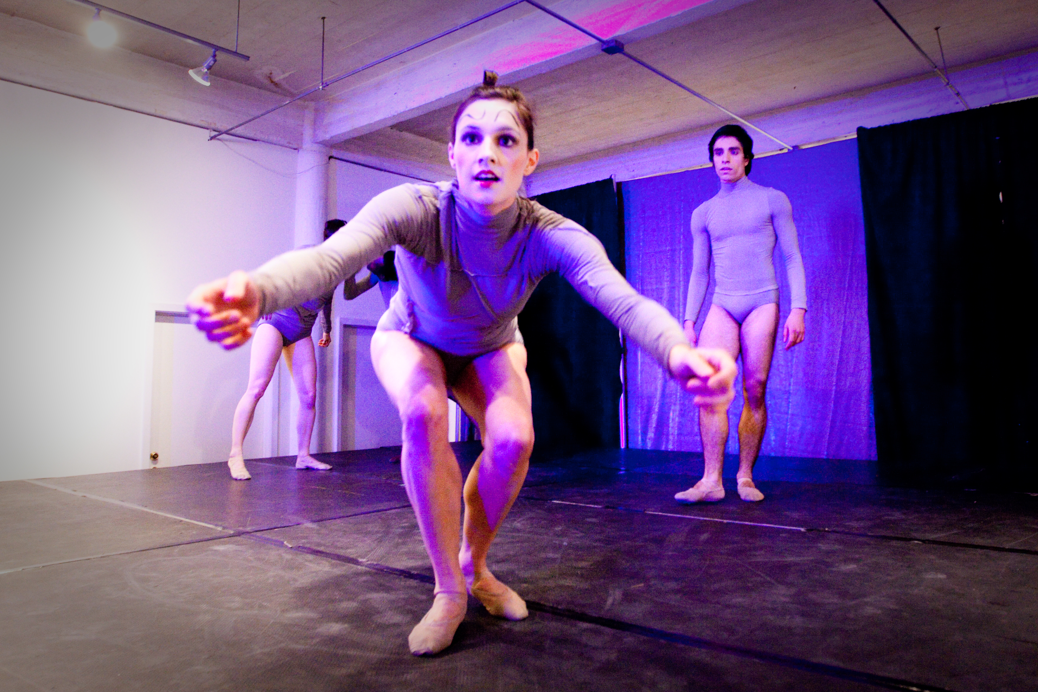 The Houston based Dominic Walsh Dance Theater. Taken at Artopia 2010.